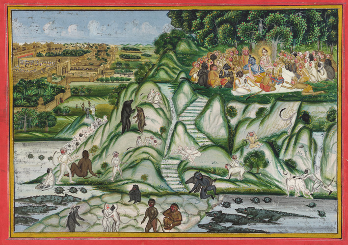 A painting depicting the scene of Lord Rama preparing to lay a siege of Lanka from the Smithsonian Institution collection.